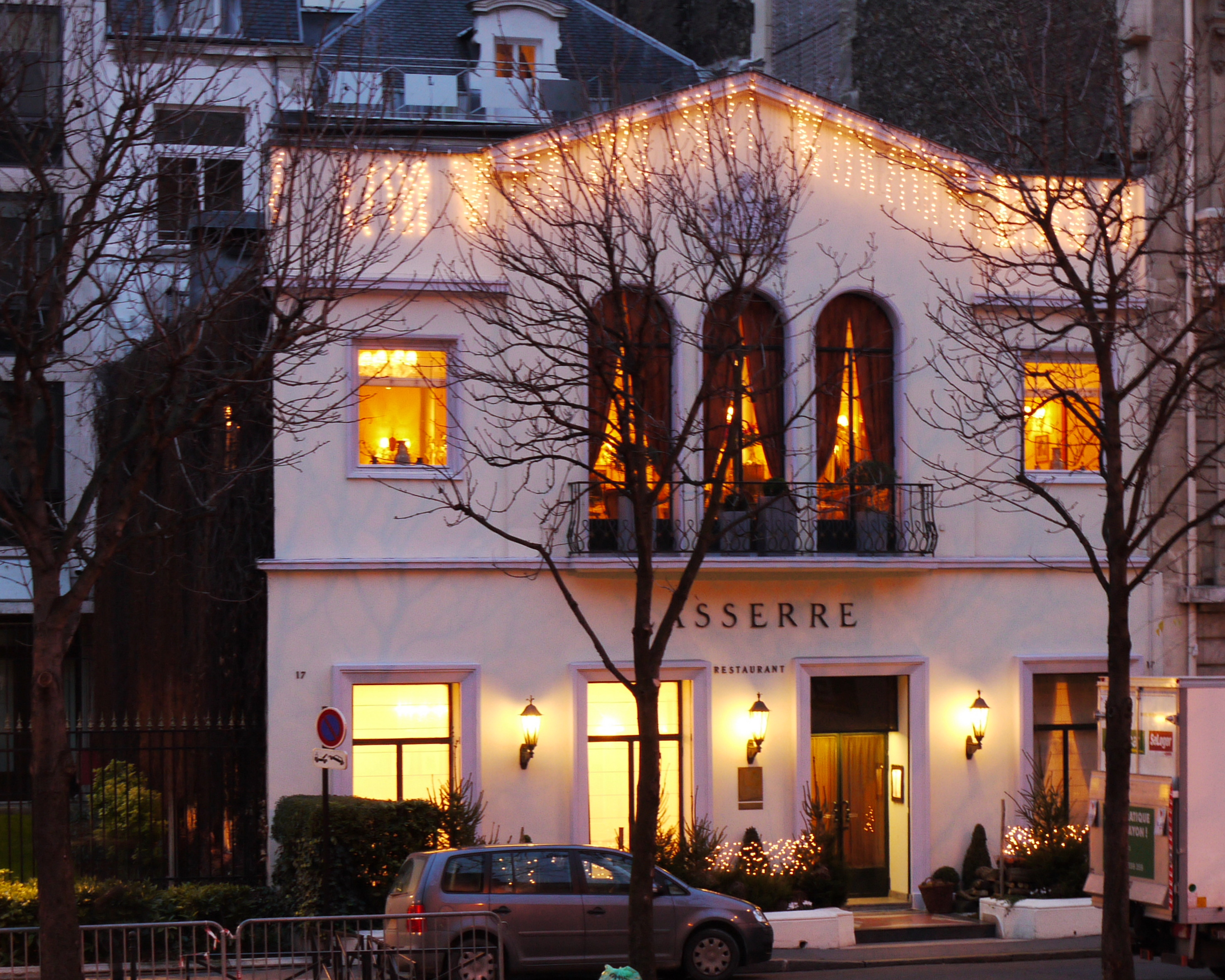 Restaurant Lasserre, Paris, France